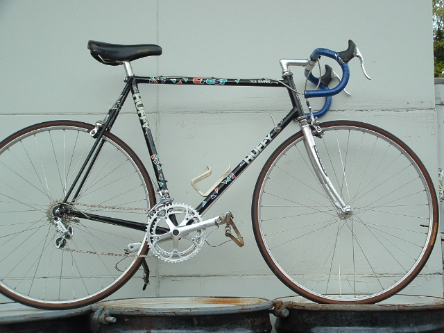 this bike was actually not built by serotta as some of the huffy 7-11 bikes were. While Serotta did build many Huffy frames, the black Crest branded Huffy frames were built by Dennis Bushnell Shown here is an example of a rare Team Crest Huffy built by Ben Serotta. Some of the original gruppo has been changed over the years, but the masterfully built steel frame is what makes these Serotta bikes a target for both collectors and enthusiasts alike. Many experts say that it is nearly impossible to duplicate the ride and feel of a Serotta built steel frame using modern technology and materials. Along with the Team Crest 'Huffy' race bikes, Ben Serotta also built many of the Team 7-Eleven bikes.